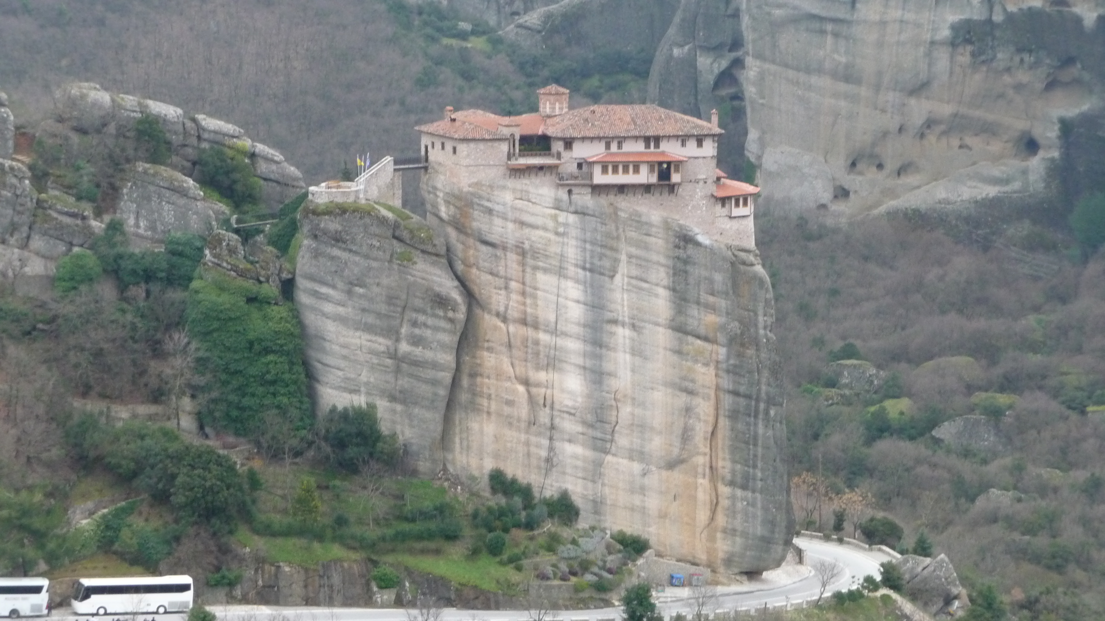 Meteora, Greece